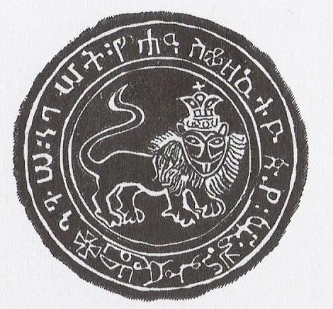 Seal of Yohannes IV